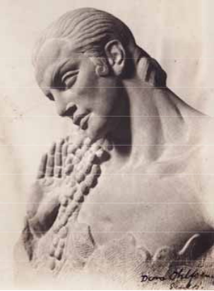 Dionysus (1930s), a relief sculpture by the Australian sculptor Dora Ohlfsen (1869–1948), who lived and worked in Rome for decades. This photograph was taken by her and sent to her niece, Dora Stanford. Stanford gave it to the Art Gallery of New South Wales, which published it on its website a few years ago. It was not published in Ohlfsen's lifetime. The sculpture itself is on Ohlfsen's grave in Rome.